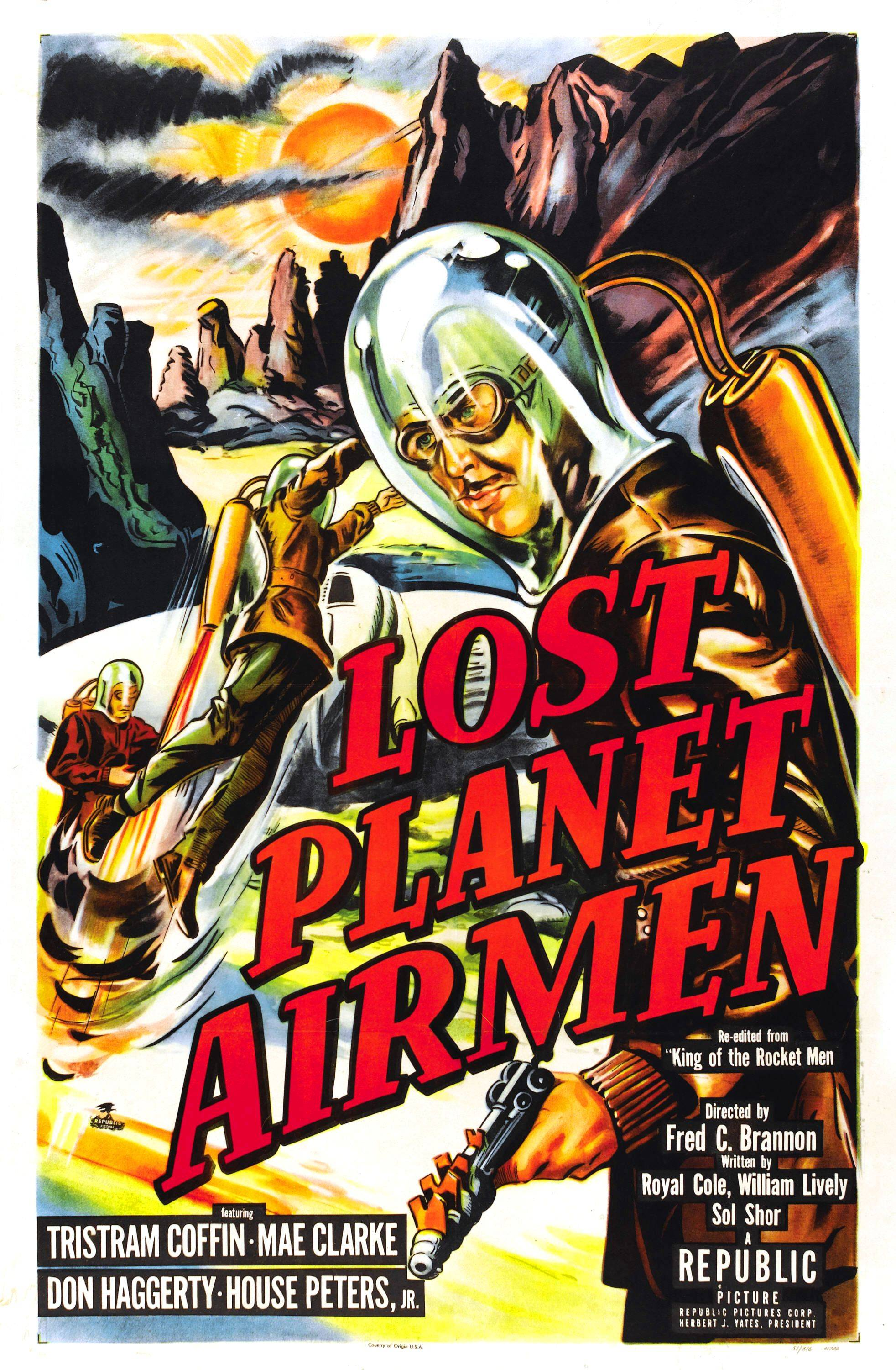 Poster for the 1951 film Lost Planet Airmen. The item has no copyright markings on it as can be seen in the links above. At bottom is Country of origin USA, 51/316 and 41782. These look to be associated with the printing of the poster.